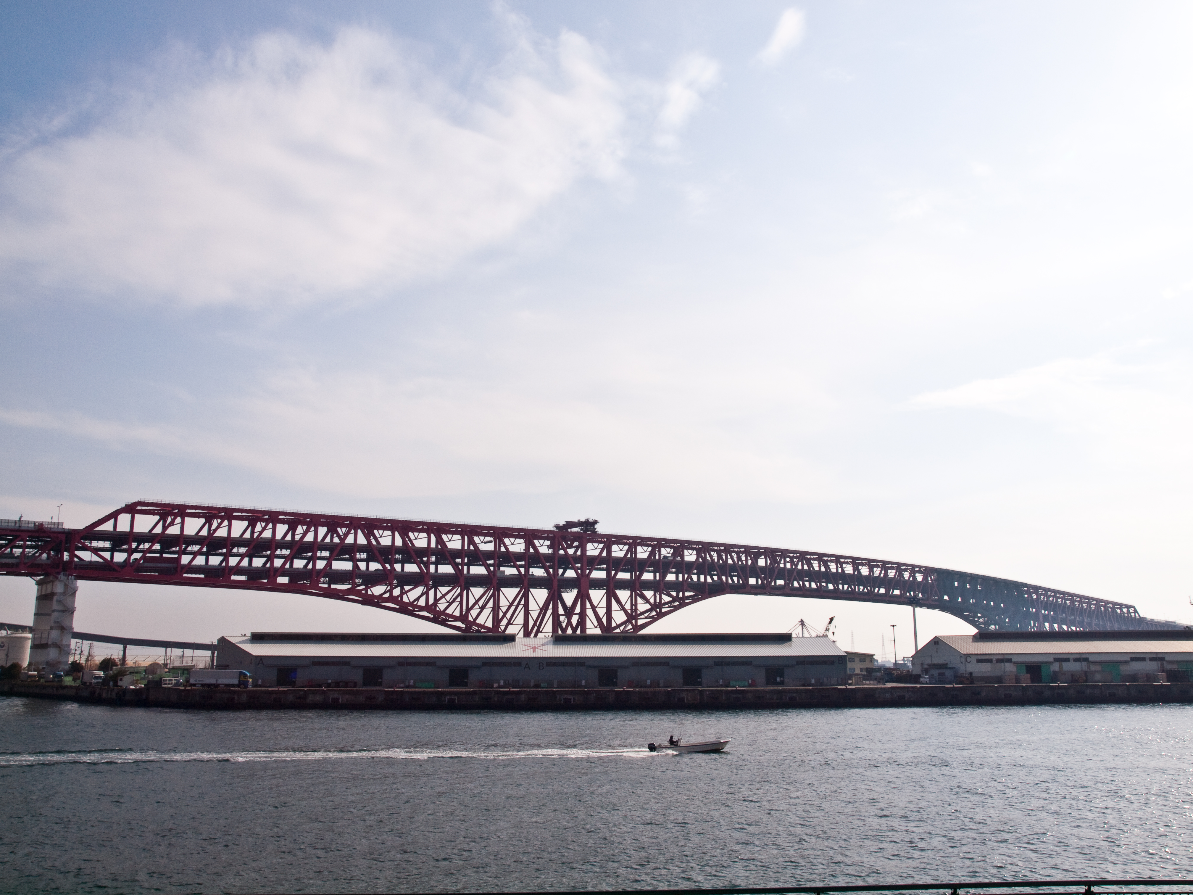 Minato Bridge